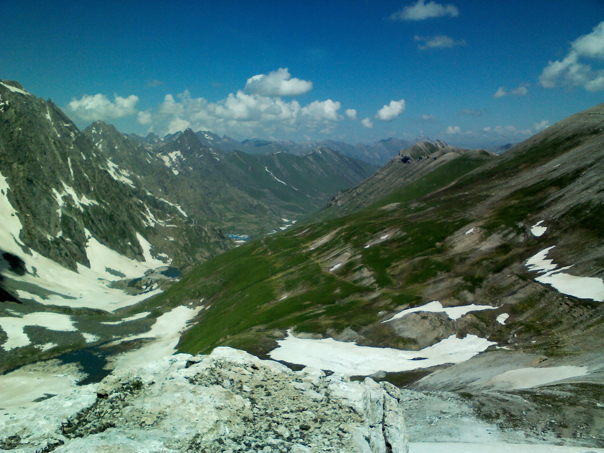 A glimpse of Gadsar Lake from Gadsar Pass.